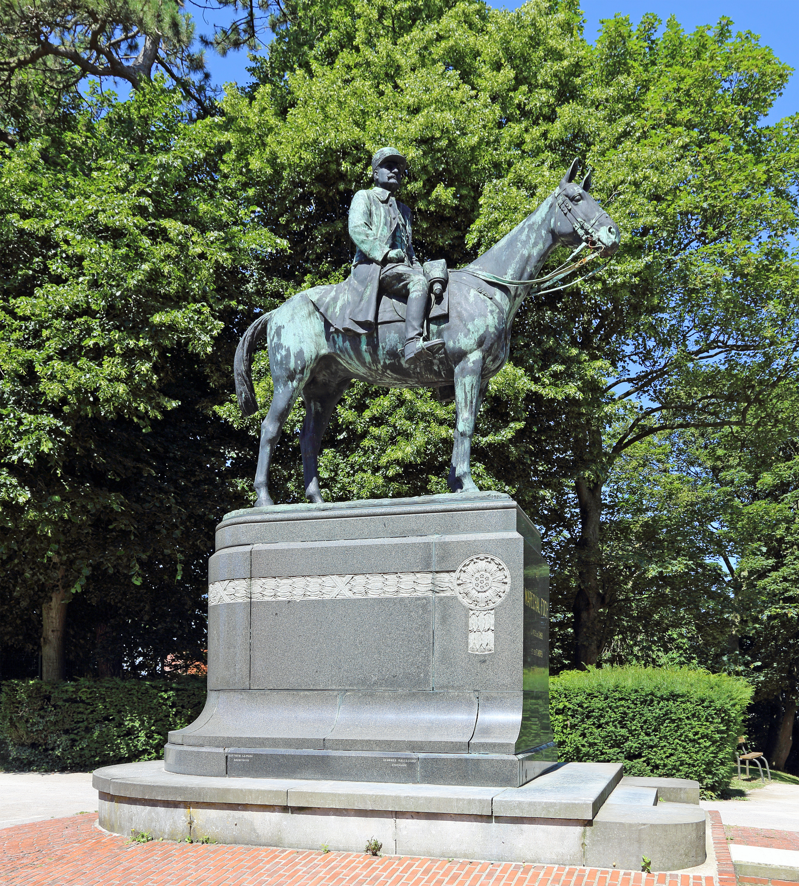 Cassel (département du Nord, France): equestrian statue of Ferdinand Foch (1928) by French sculptor Georges Malissard (Anzin, 1877 - Neuilly-sur-Seine, 1942)